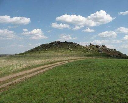 Kamyshinskie ushi (Kamyshinskie ears). Volgograd region. Russia.